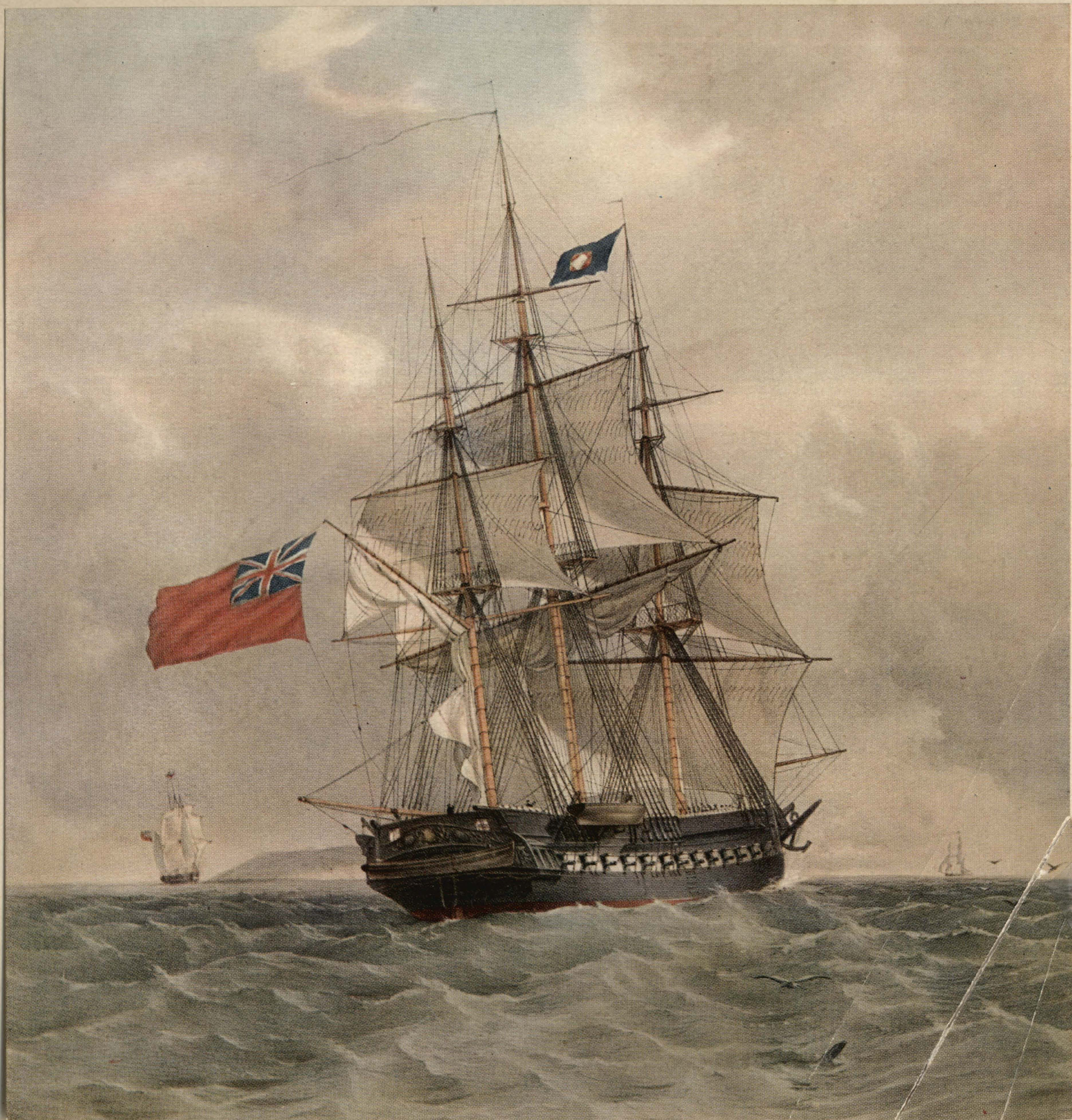 Color lithograph by T. G. Dutton after painting by G.F. St. John There were nine French and British naval vessels named Pomone. This is the frigate built 1805 at Frindsbury.